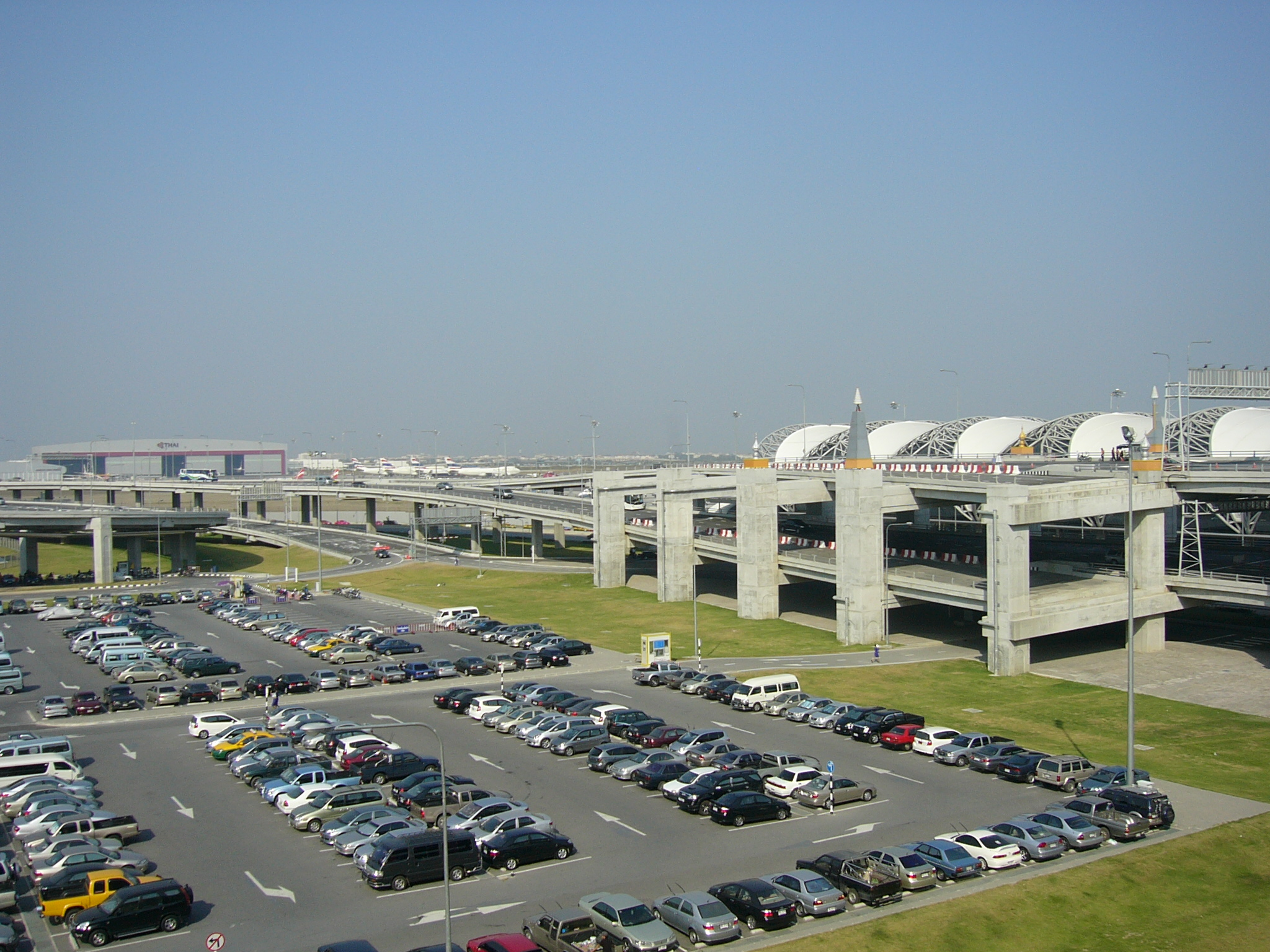 One of the Parking lots and streets towards Suvarnabhumi International Airport near Bangkok, Thailand — Note the undone street near the ground and facilities of Thai Airways in the background (hangar). The multi-storage car park is adjacent to parking lot (left, not pictured).